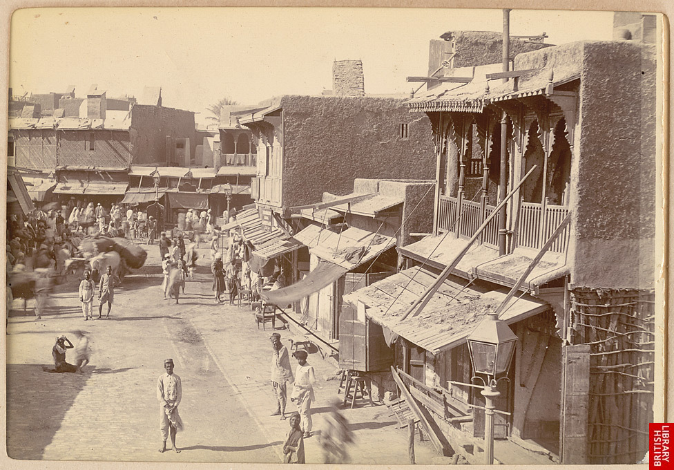 Photograph of a busy street scene in Karachi, taken by an unknown photographer